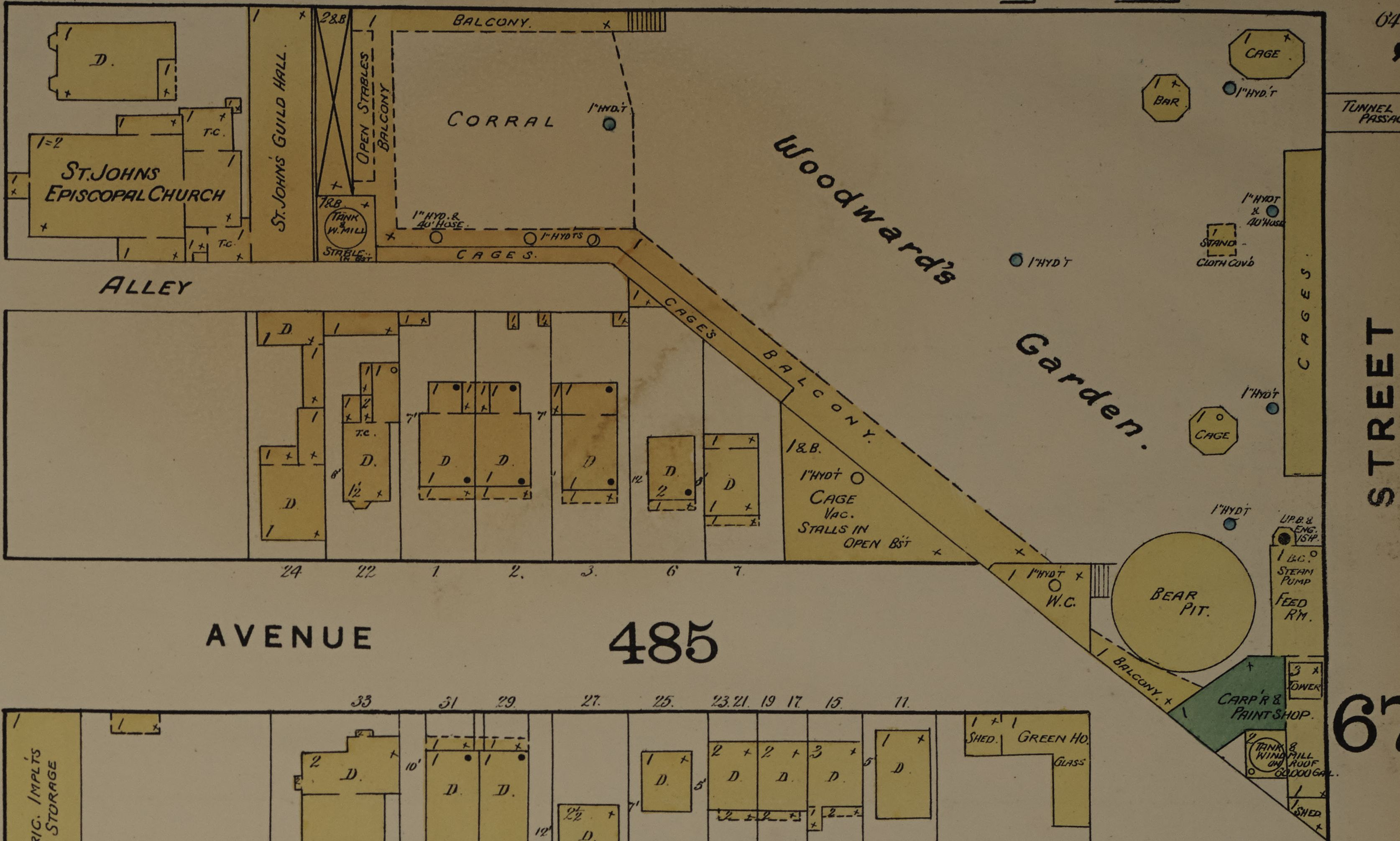 1889 Vol. 3. 69 Sheet(s). Double-paged plates numbered 62-88F. Bound.